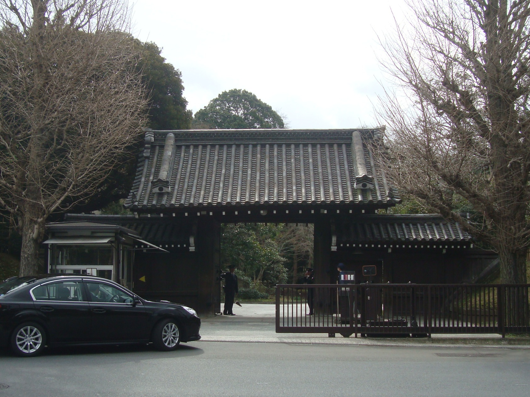 Samegahashi-mon Gate of Akasaka imperial estate at Moto-akasaka, Minato city, Tokyo